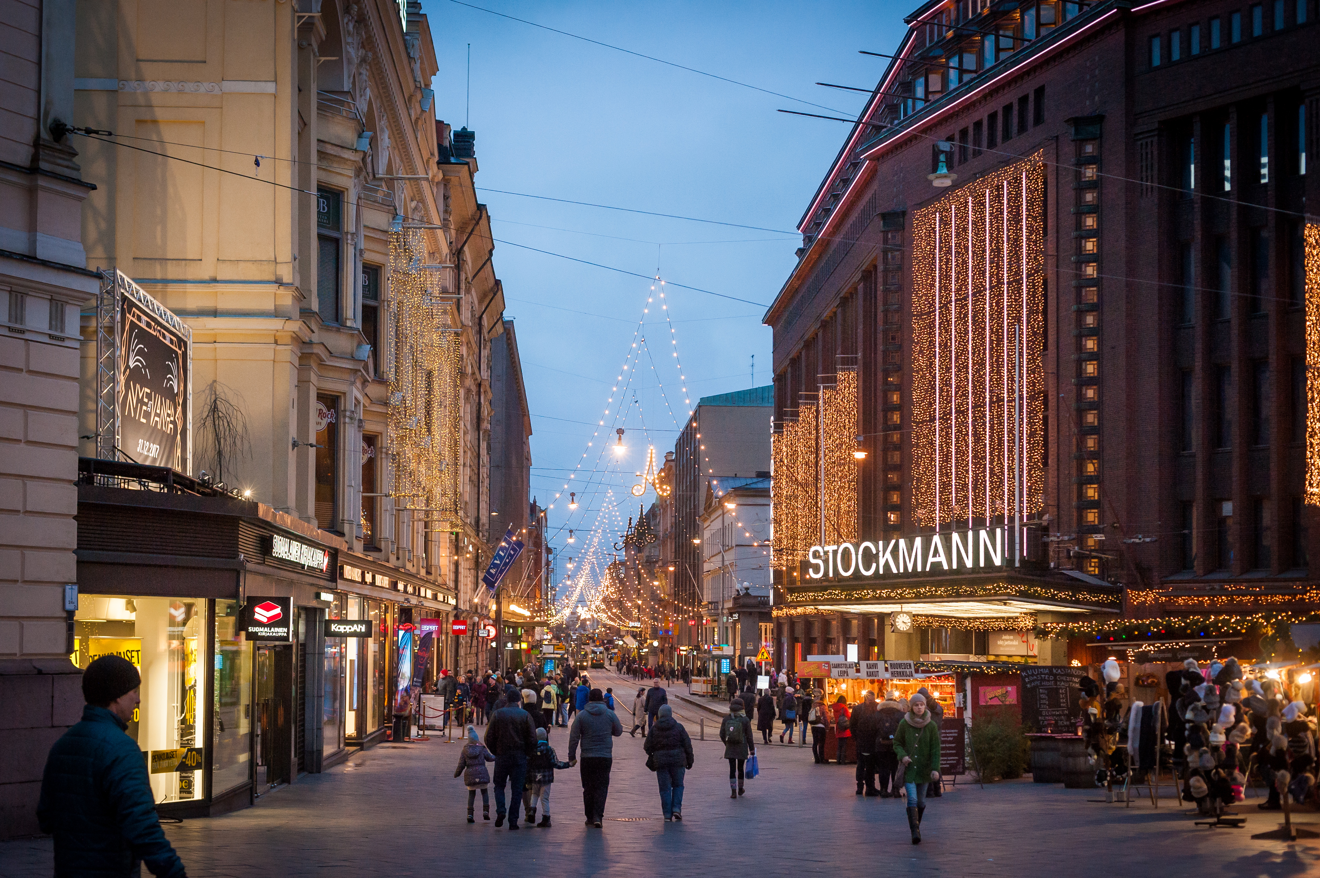 A view the Aleksanterinkatu street in Helsinki, Finland.